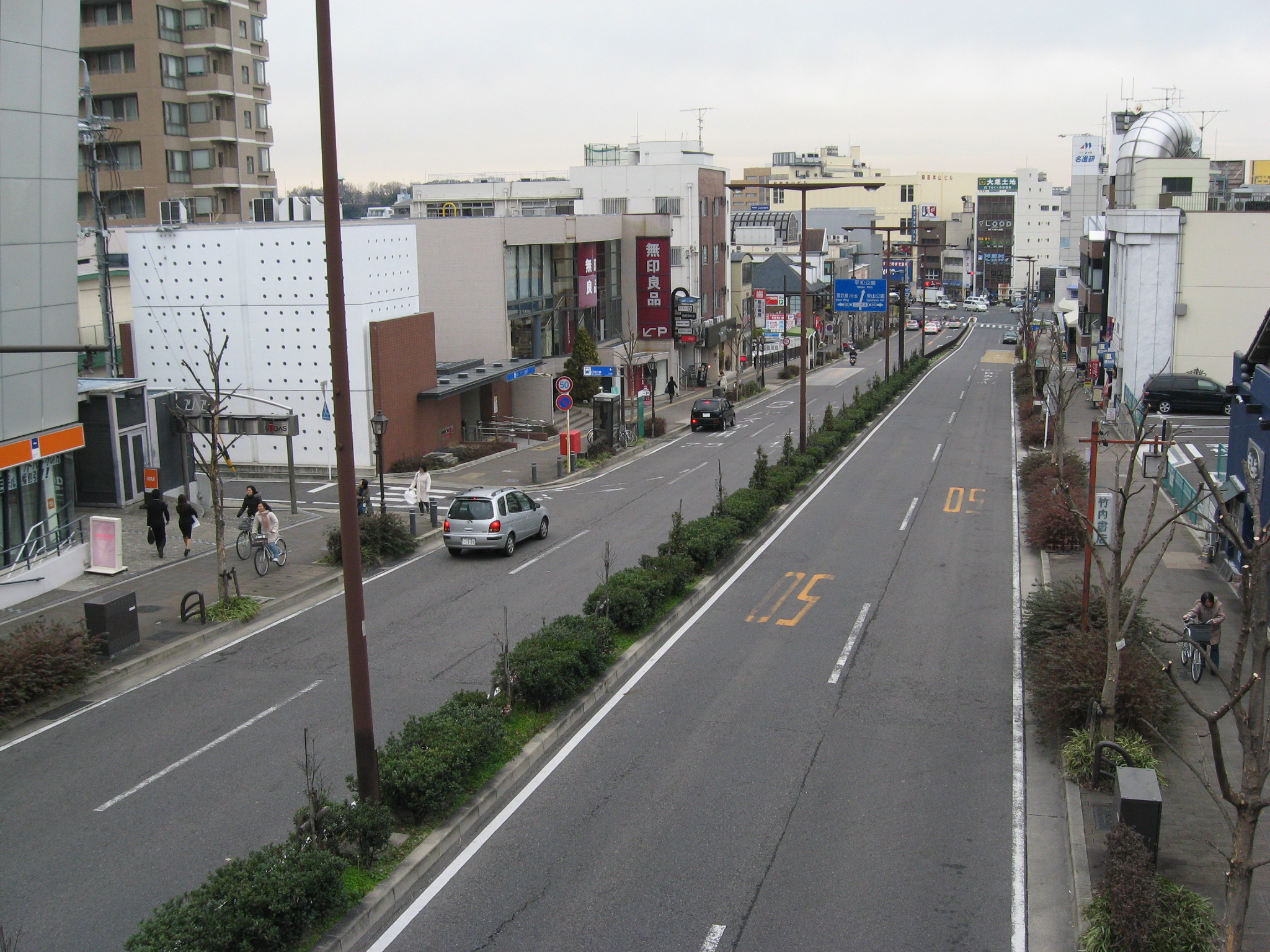 Yamate Green Road (Motoyama Intersection) in Nagoya, Japan